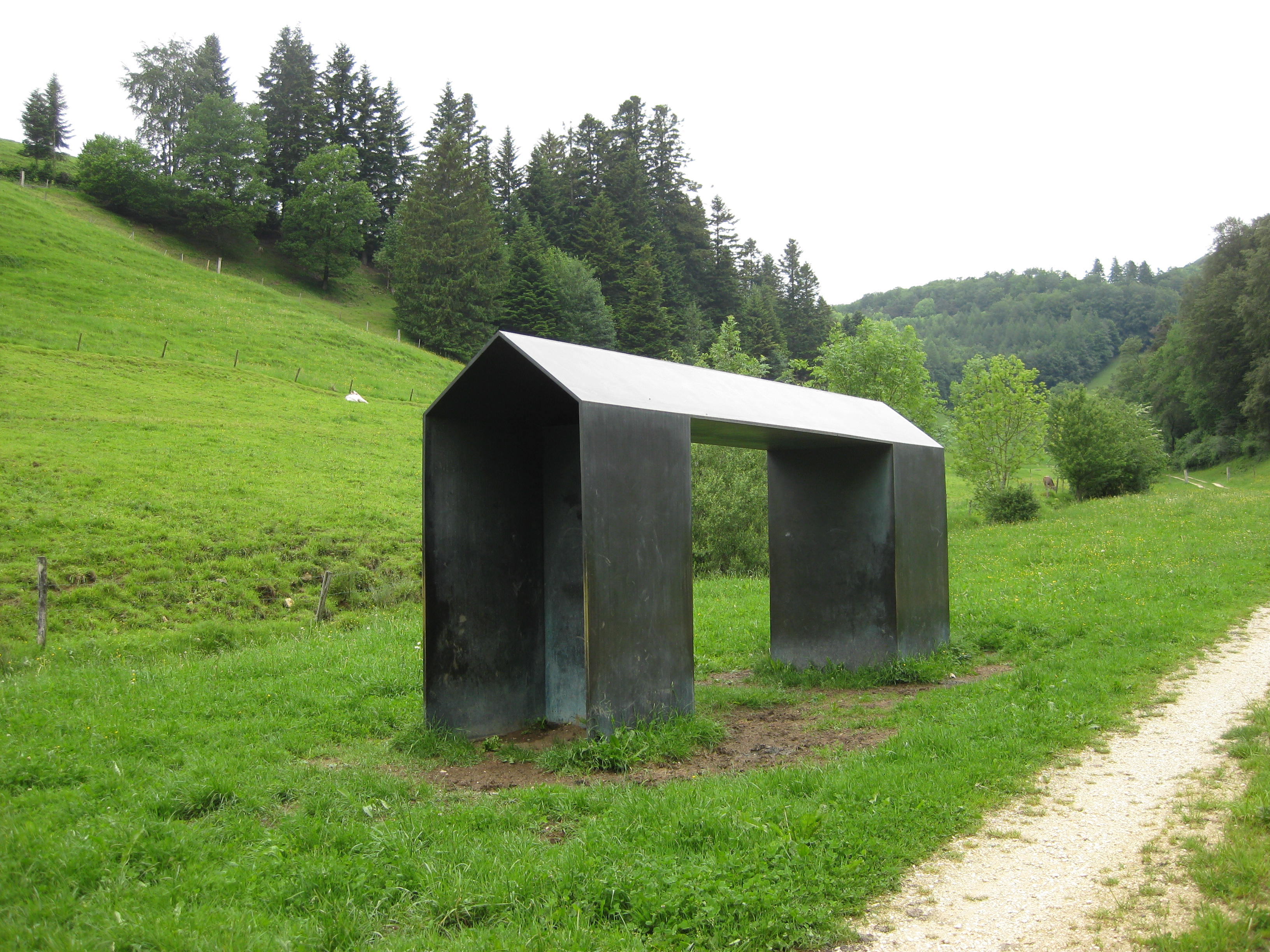 Sculpture at Schoenthal - Kurt Sigrist, Unterstand, 1986